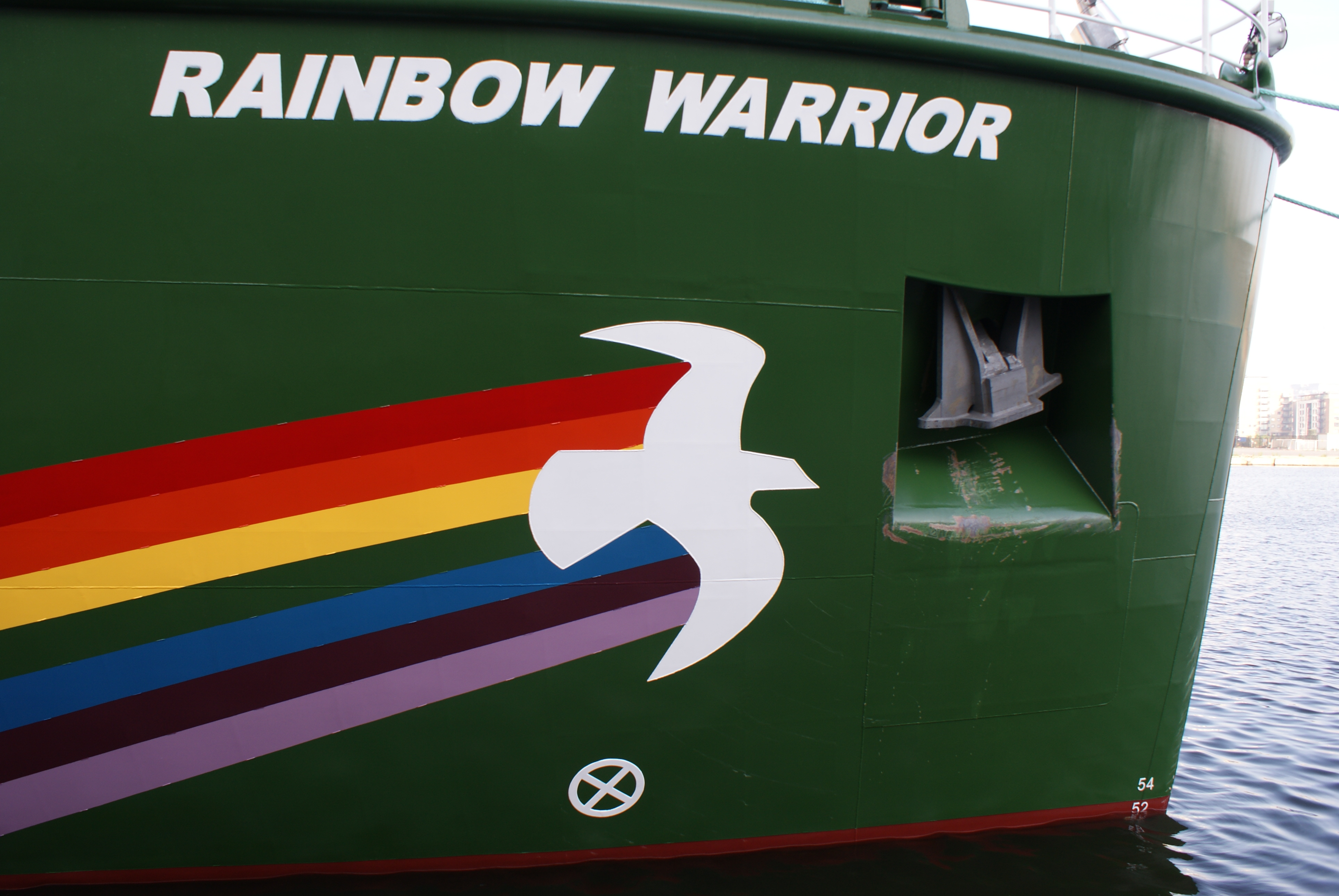 Starboard bow of Rainbow Warrior III, showing ship's name, logo and anchor. West India Dock, London.